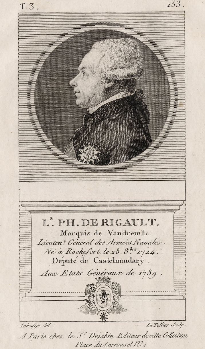 Profile portrait of the Marquis de Vaudreuil (1724-1802). Naval officer during the American Revolutionary War.